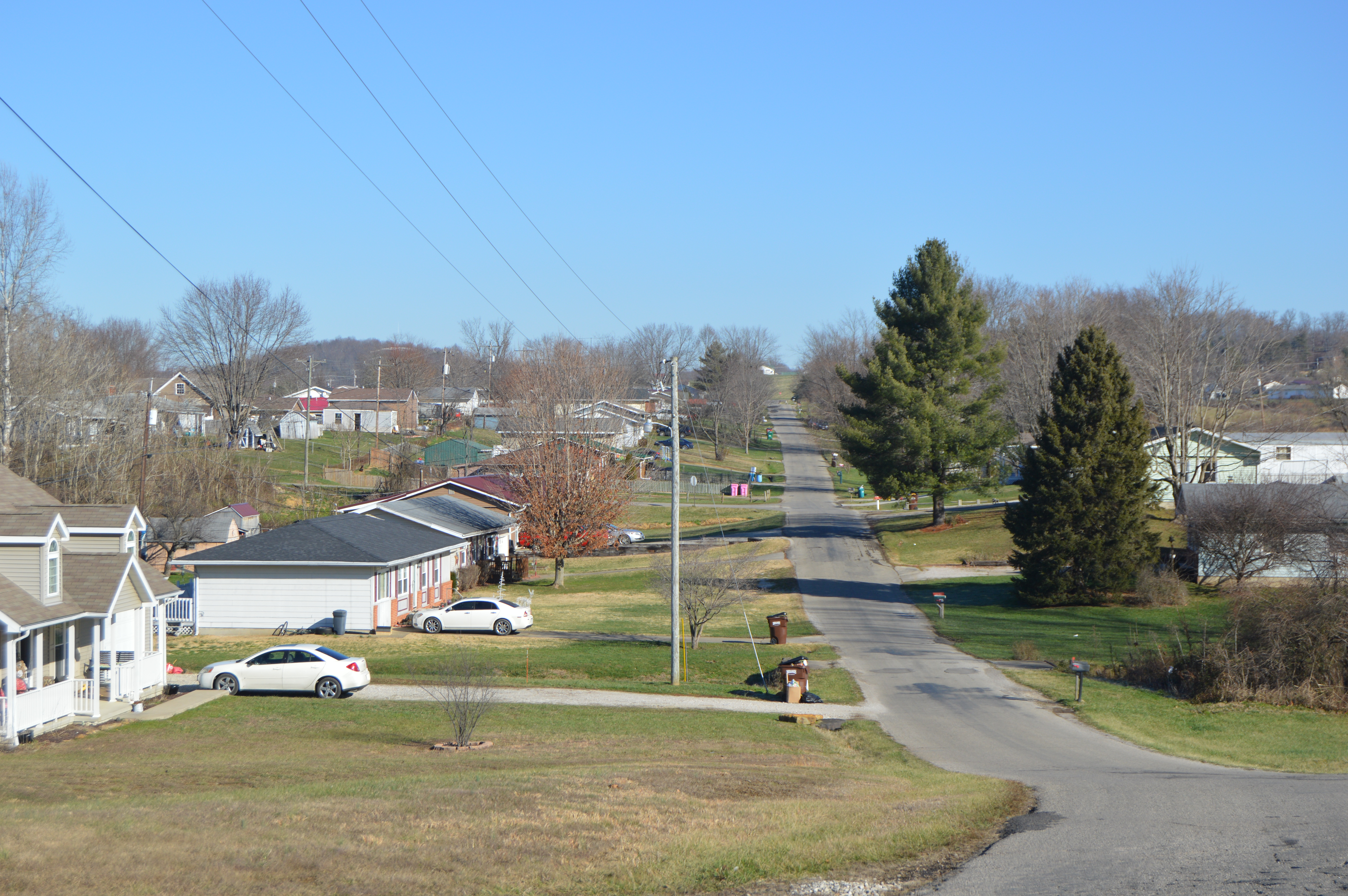 Houses on Kittle Road in northwestern Vernon Township, Scioto County, Ohio, United States.